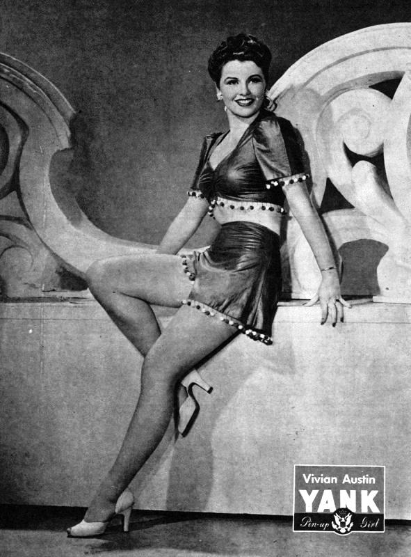 Pin-up photo of Vivian Austin for Yank, the Army Weekly, a weekly U.S. Army magazine fully staffed by enlisted men.